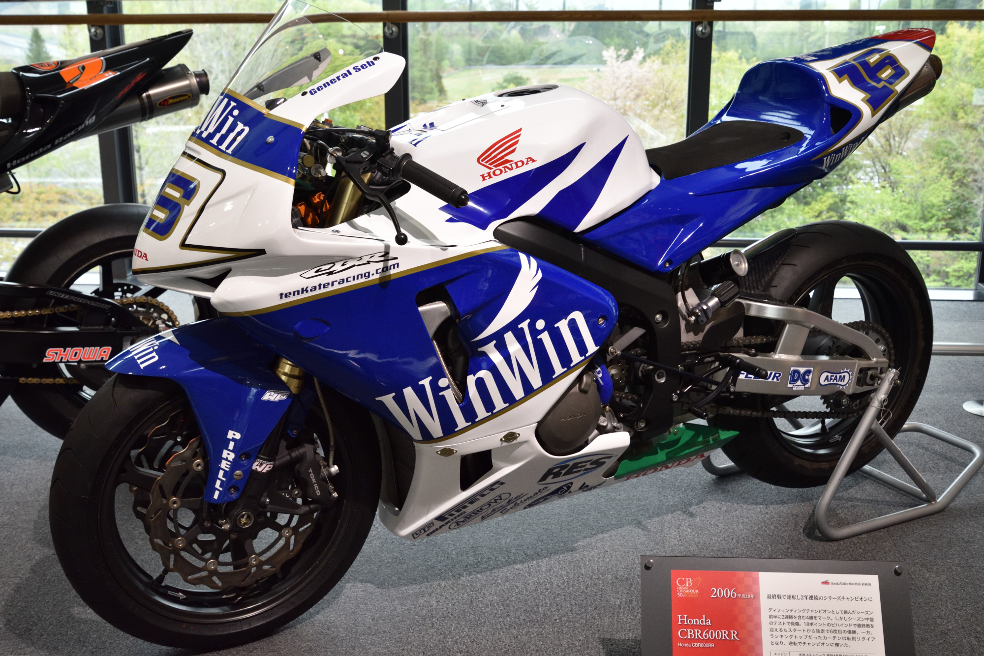 Honda CBR600RR (Sébastien Charpentier, 2006 World Supersport Championship)